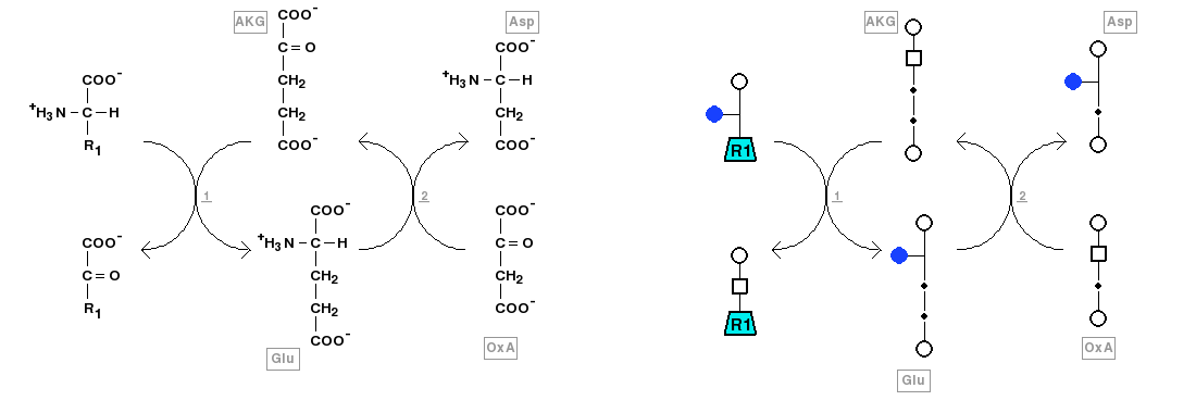 Transamination reactions